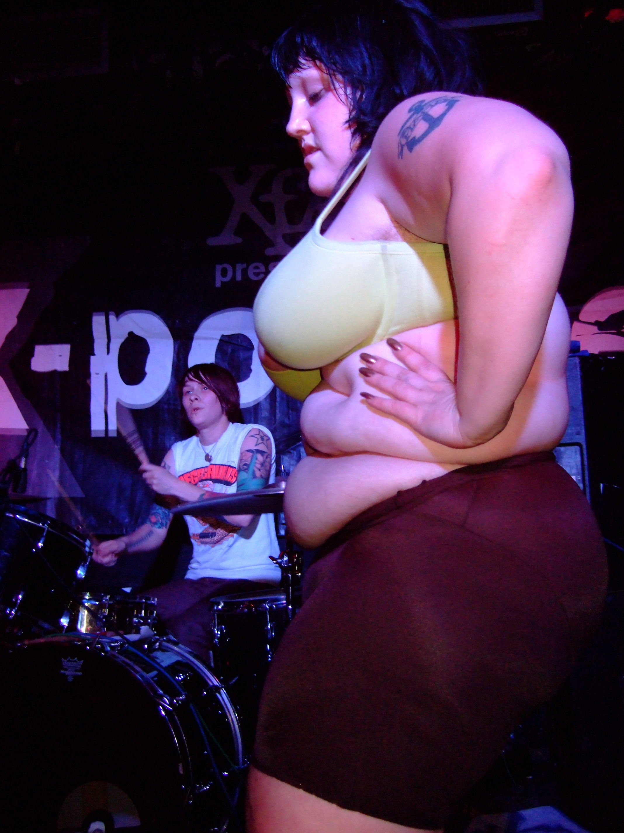 Beth Ditto performing at London Barfly, 16 May 2007